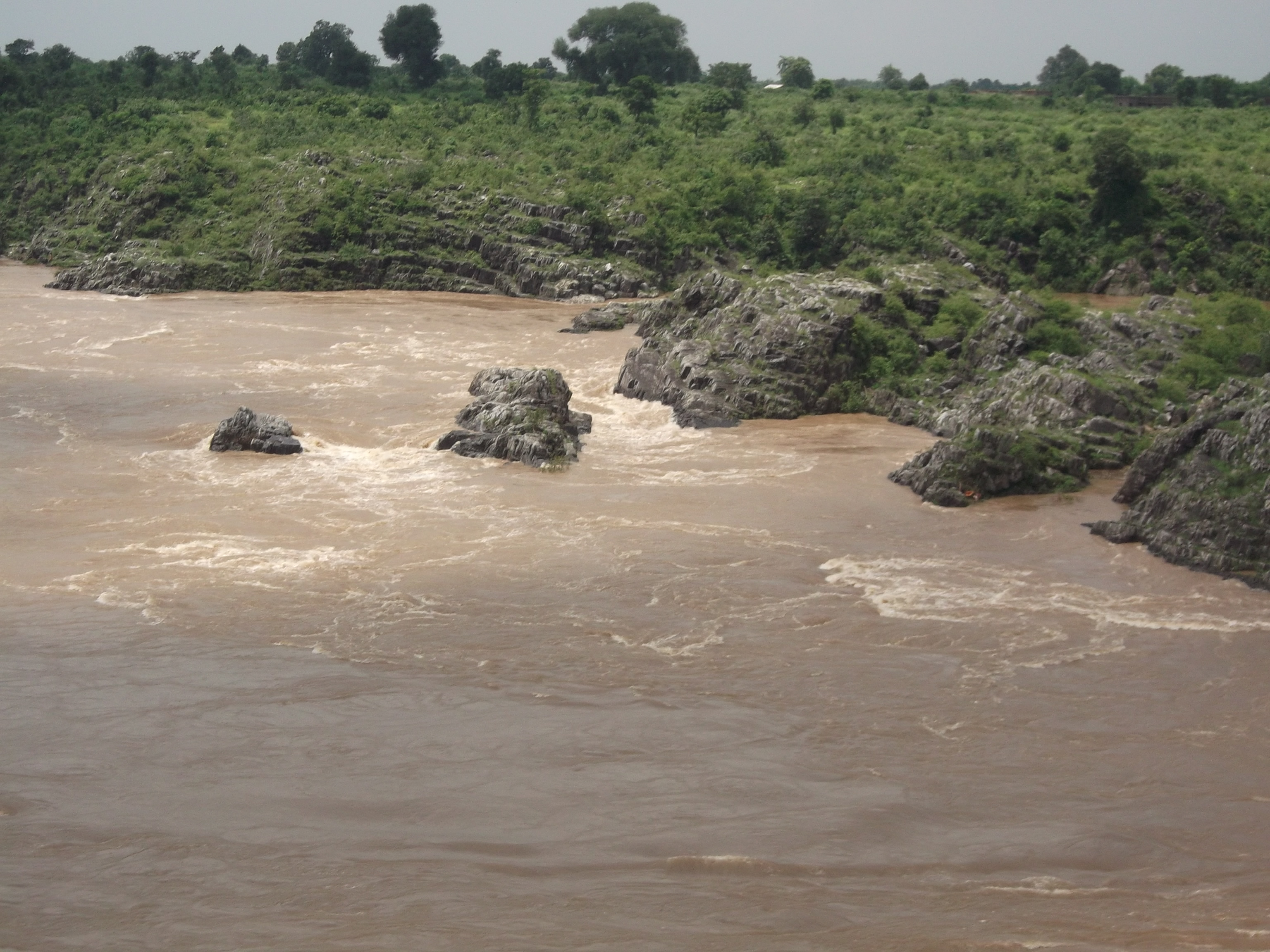 narmada river flowing voilently during the monsoons near bedaghat,MP,India..